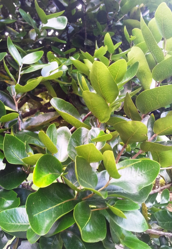 Diospyros egrettarum ebony planted by Nelson Mandela - Pamplemousses